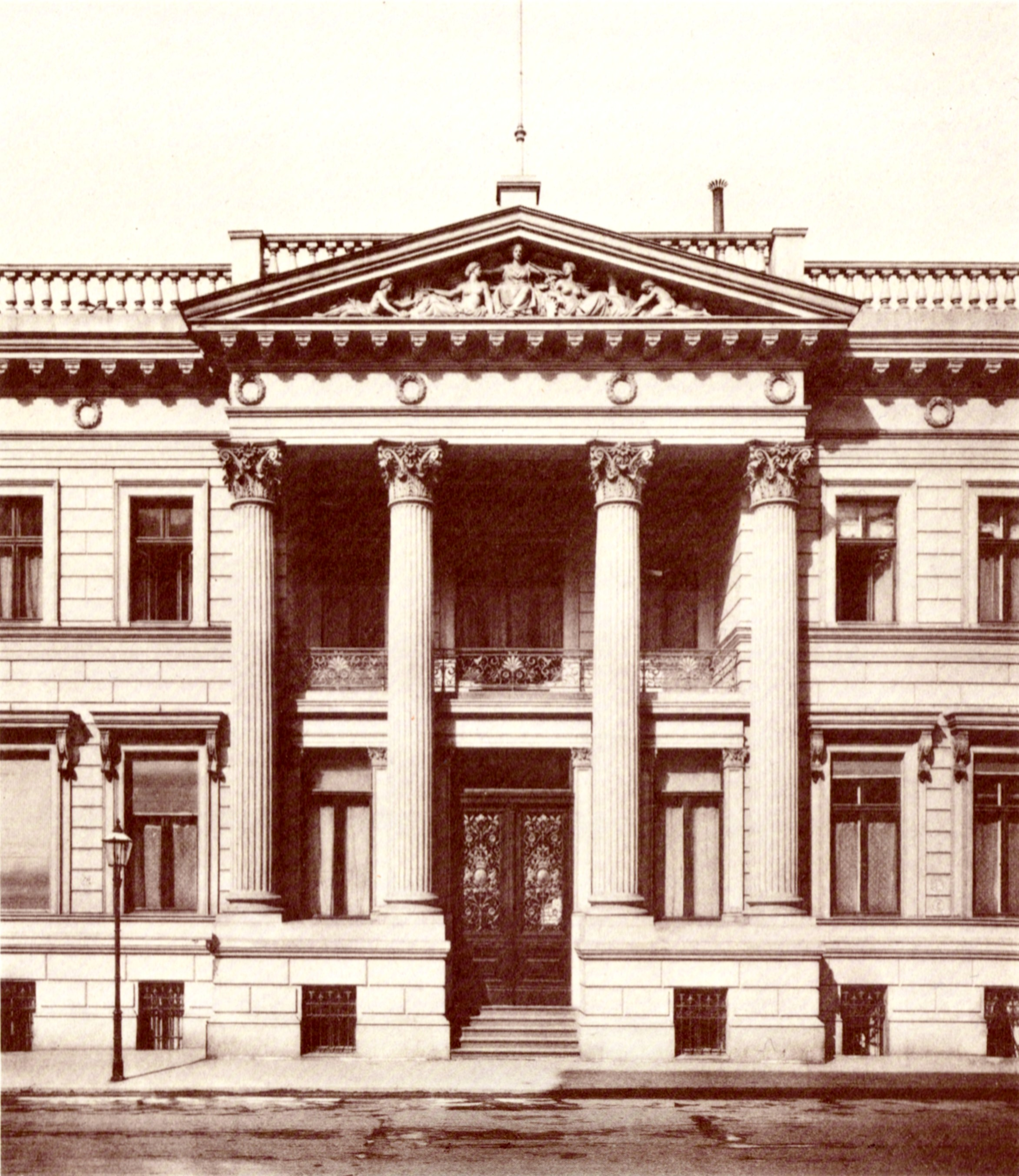 Berlin - Palais Strousberg at Wilhelmstraße 70 around 1890